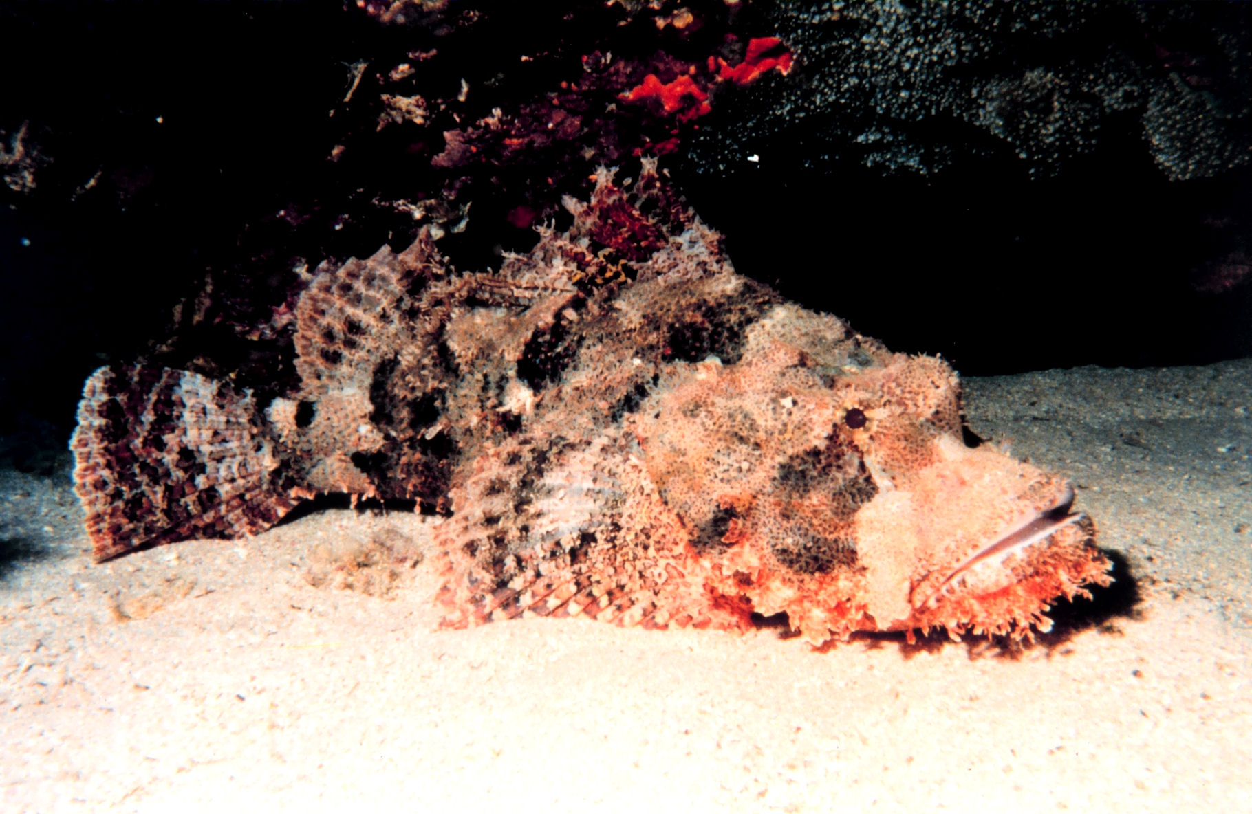 Scorpaenopsis oxycephala in the Gulf of Aqaba, Red Sea